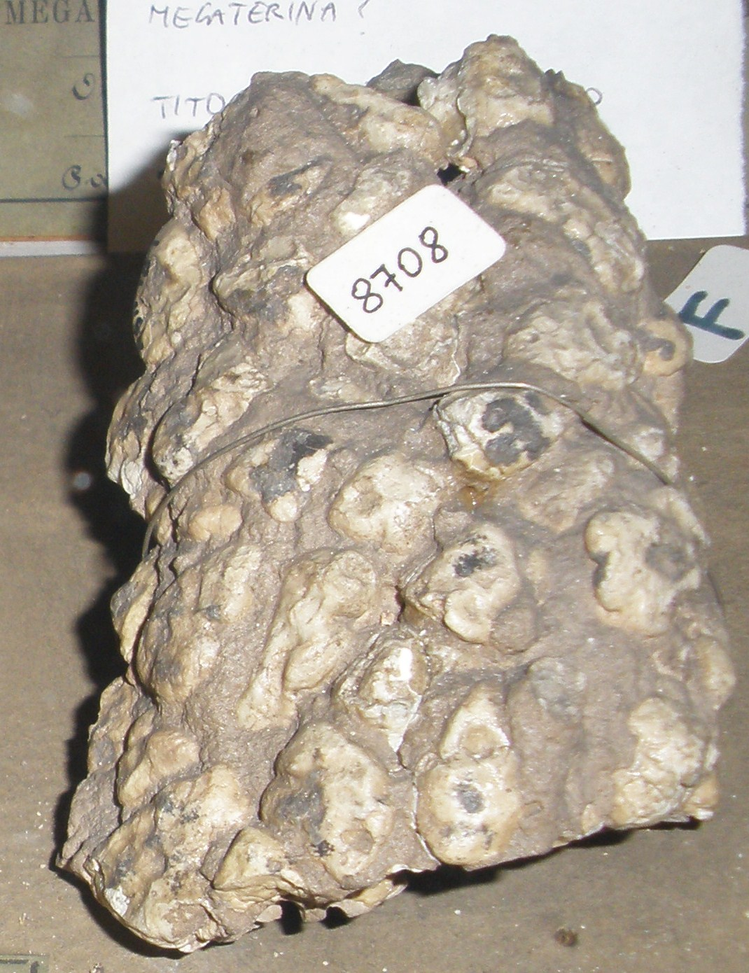 Fossil of Mylodon, an extinct mammal